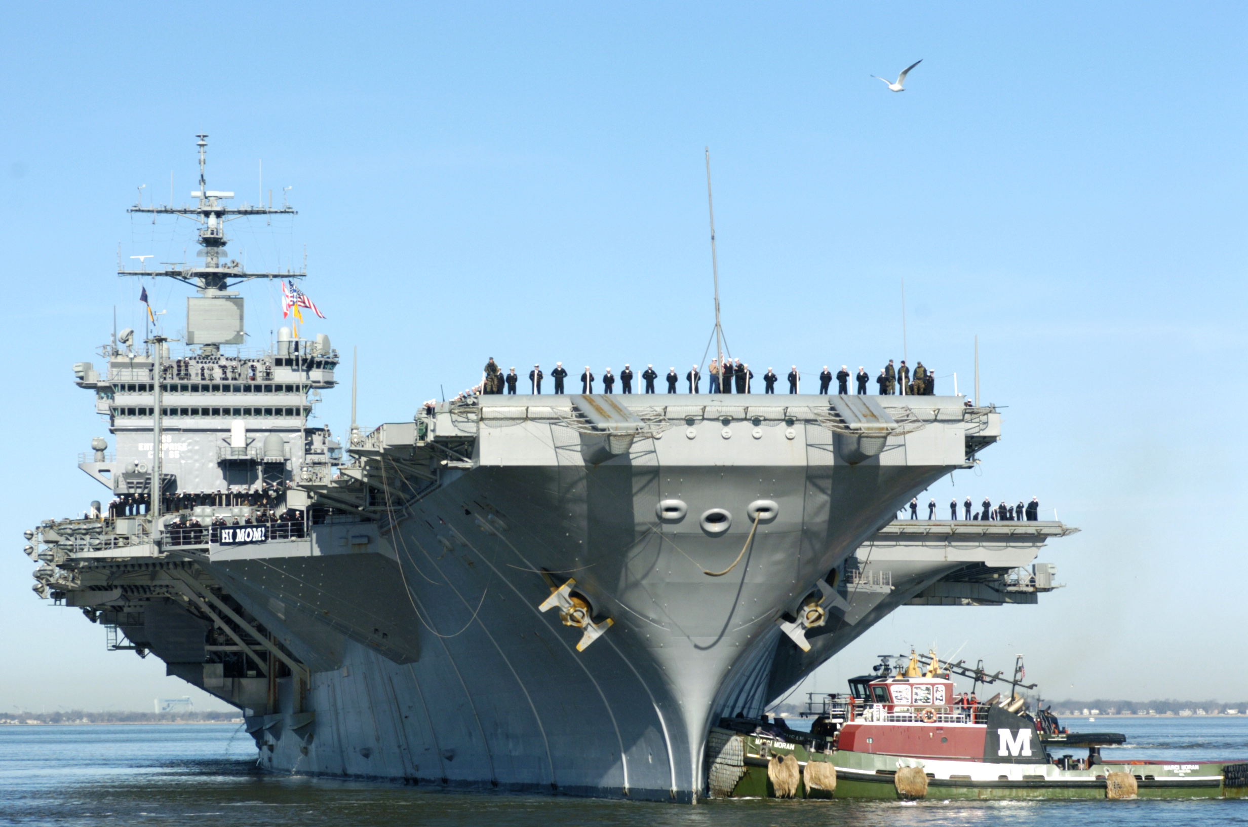 Naval Station Norfolk, Va. (Feb. 29, 2004) – Sailors and Marines "man the rails" aboard the nuclear powered aircraft carrier USS Enterprise (CVN 65) as she approaches her pier where thousands of family members await. The aircraft carrier and its strike group completed a six-month deployment in support of the global war on terrorism with missions supporting Operations Iraqi Freedom and Enduring Freedom. U.S. Navy photo by Chief Journalist Dave Fliesen (RELEASED)